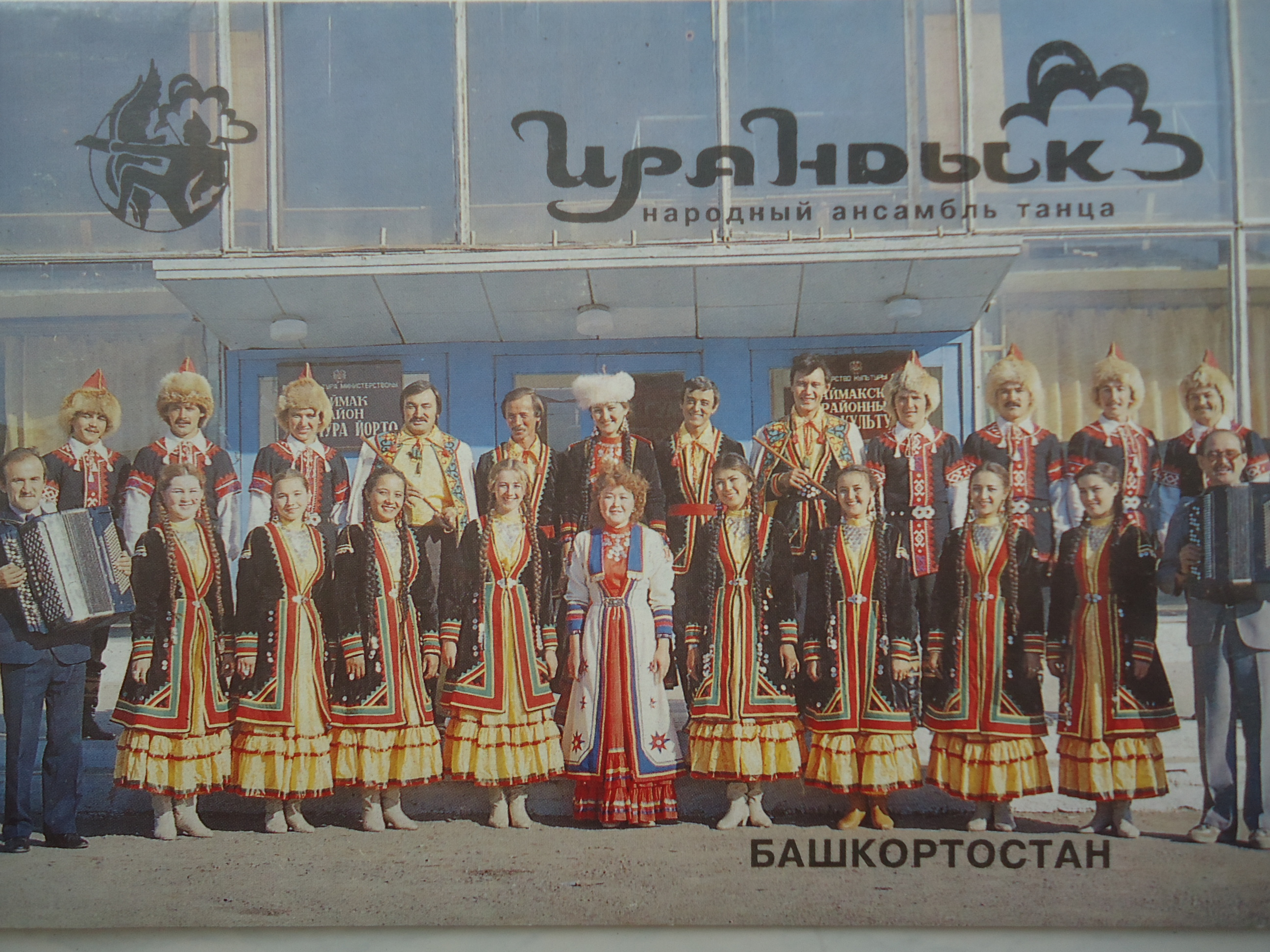 Танцоры из ансамбля народных танцев "Ирандык" и аккомпаниаторы. Фото обложки буклета